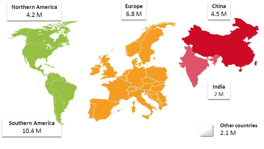 number of Viadeo members on each continent